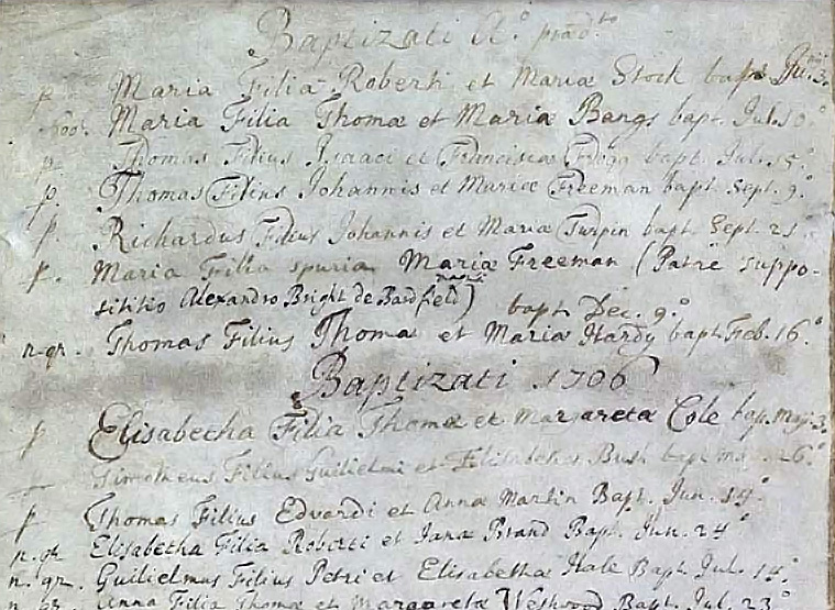 A crop of the page showing the date on which Dick Turpin was baptised (fifth name down)